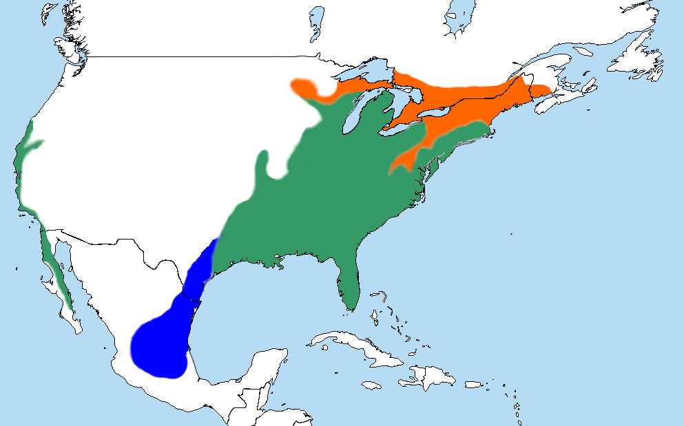 Range Map of Buteo lineatus